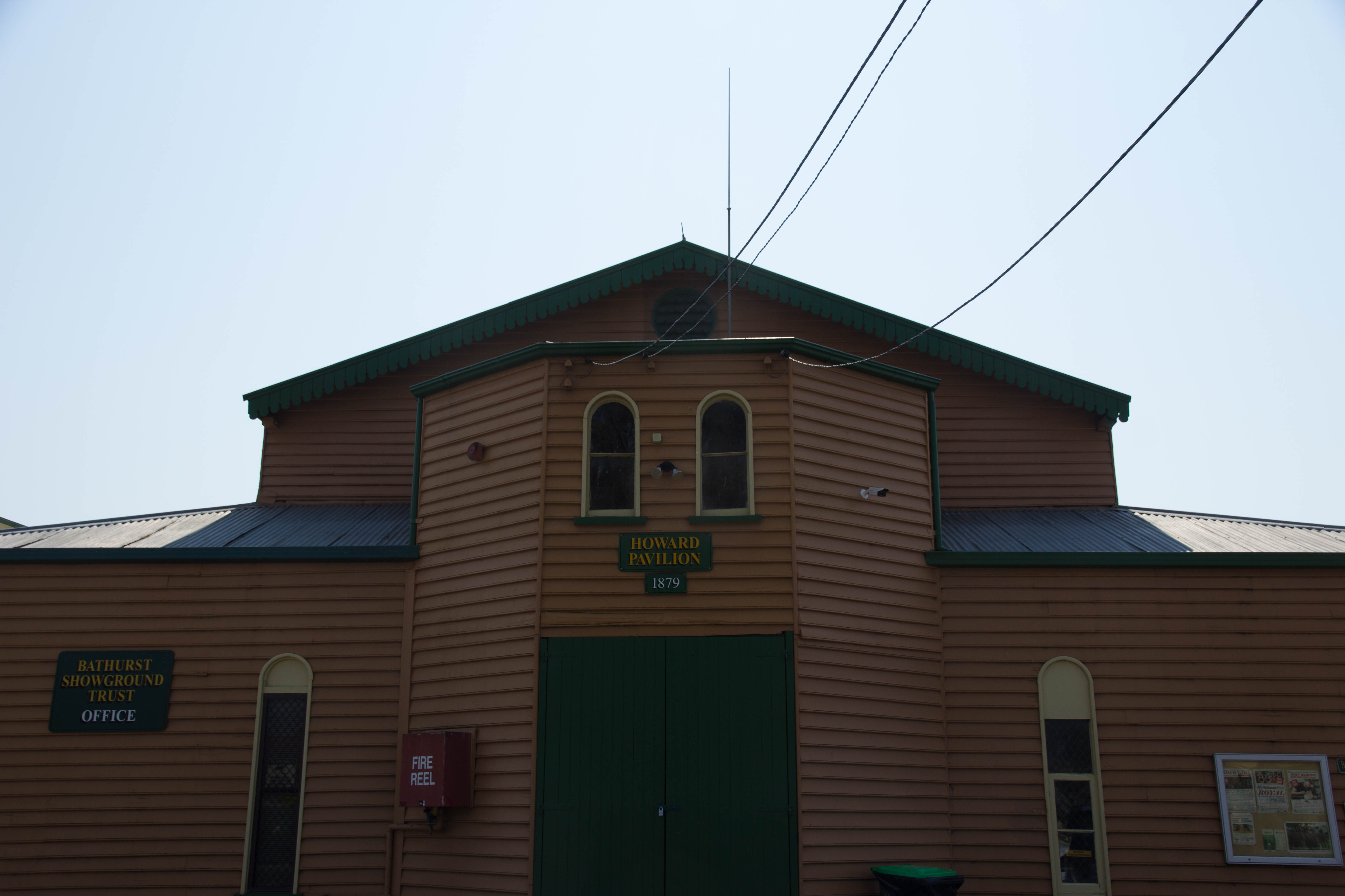 Bathurst Showground in Bathurst, New South Wales